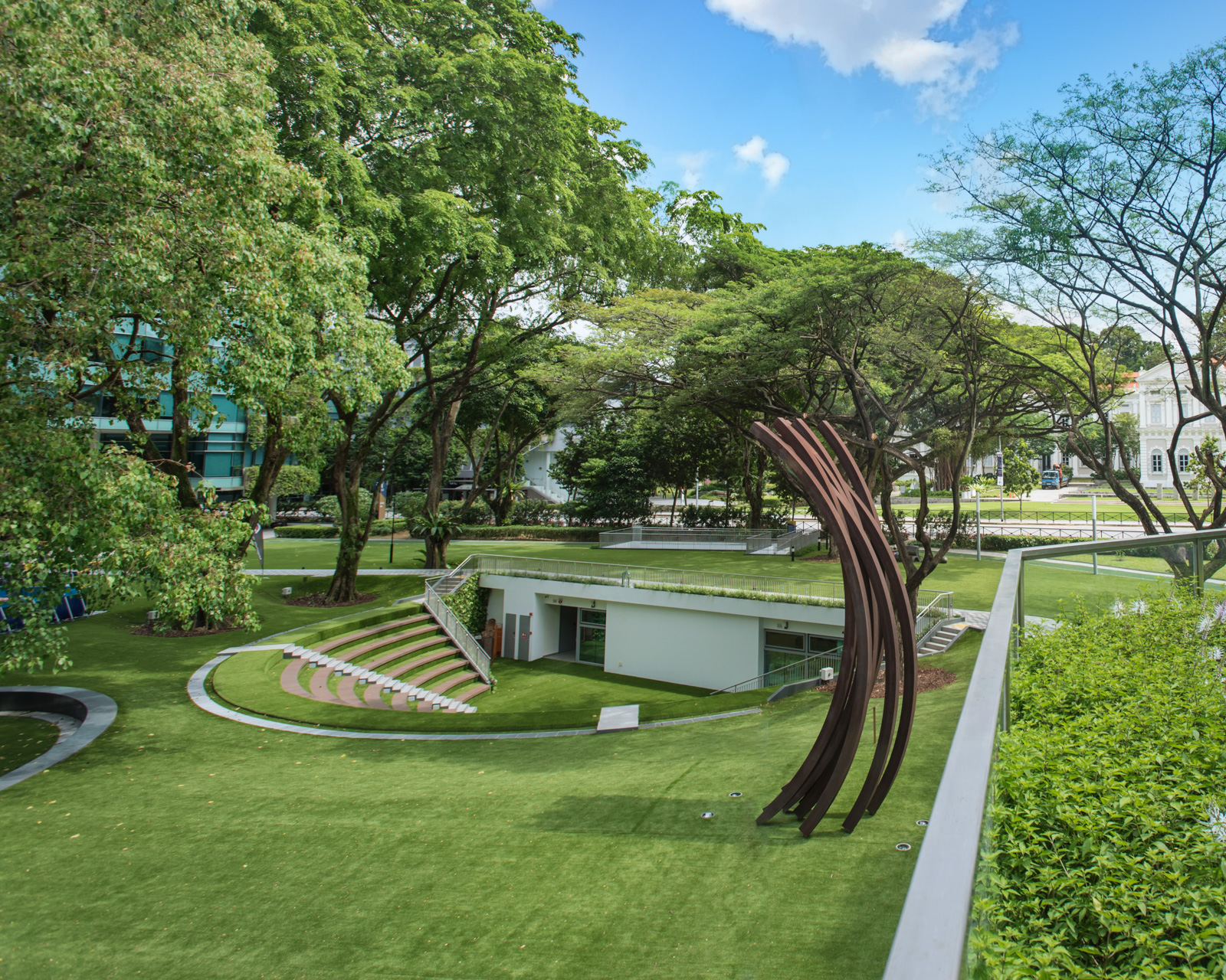 SMU Campus Green also now features the addition of a new piece of sculpture, “97.5° Arc x 8” by artist Bernar Venet. This is the second donation of an art piece by Dato’ Kho Hui Meng, the President of Oil Trading at Vitol Asia Pte Ltd. Dato’ Kho previously donated a piece of sculpture titled “Sitting on History” by Bill Woodrow in February 2014. The presence of both sculptures is an appropriate reminder of the university’s proximity to two museums beside Campus Green. The sculpture’s title is a direct reference to its mathematical composition. Its curved steel material is an indication of balance and resilience, and its form also mirrors those of the amphitheatre and the new Campus Green jogging track.